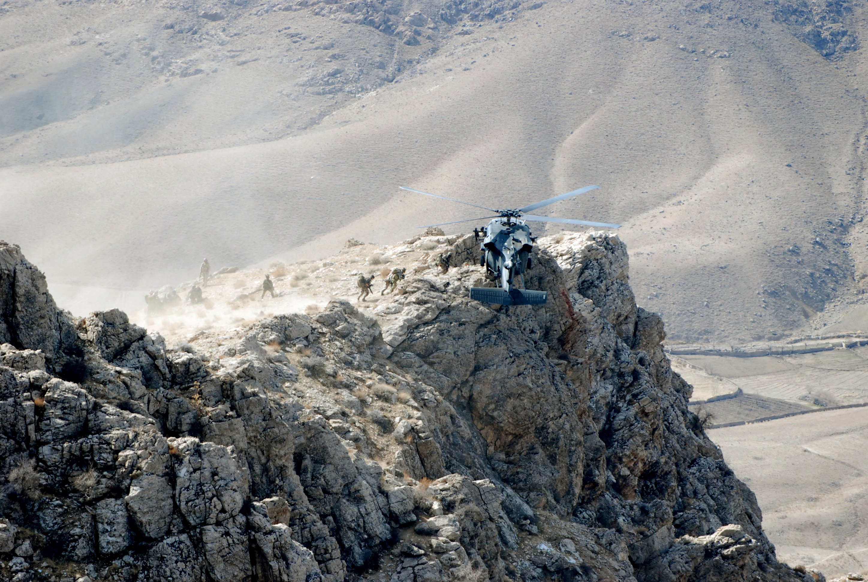 U.S. Special Forces are extracted from a mountain pinnacle in Zabul province, Afghanistan, by a U.S. Army UH-60 Black Hawk helicopter from Company A, 2nd Battalion, 82nd Aviation Regiment, 82nd Combat Aviation Brigade after executing an air assault mission to disrupt insurgent communication.